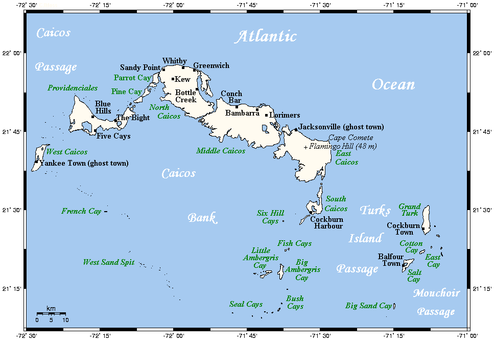 A map showing the Turks and Caicos Islands' main towns and islands. This map's source is here, with the uploader's modifications, and the GMT homepage says that the tools are released under the GNU General Public License.